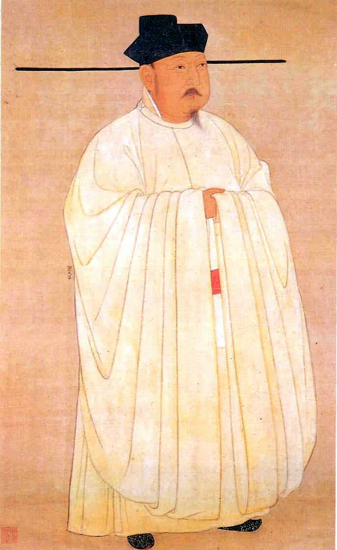 Song Taizong, Chinese Emperor